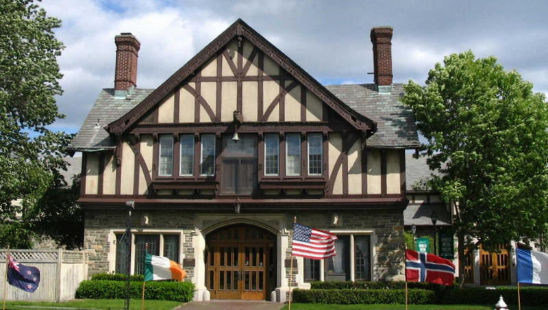 The Harness Racing Museum & Hall of Fame in Goshen, New York. Taken